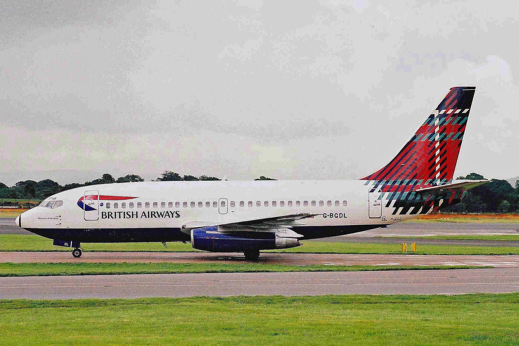 Benyhone Tartan- Scotland World Tail c/scheme